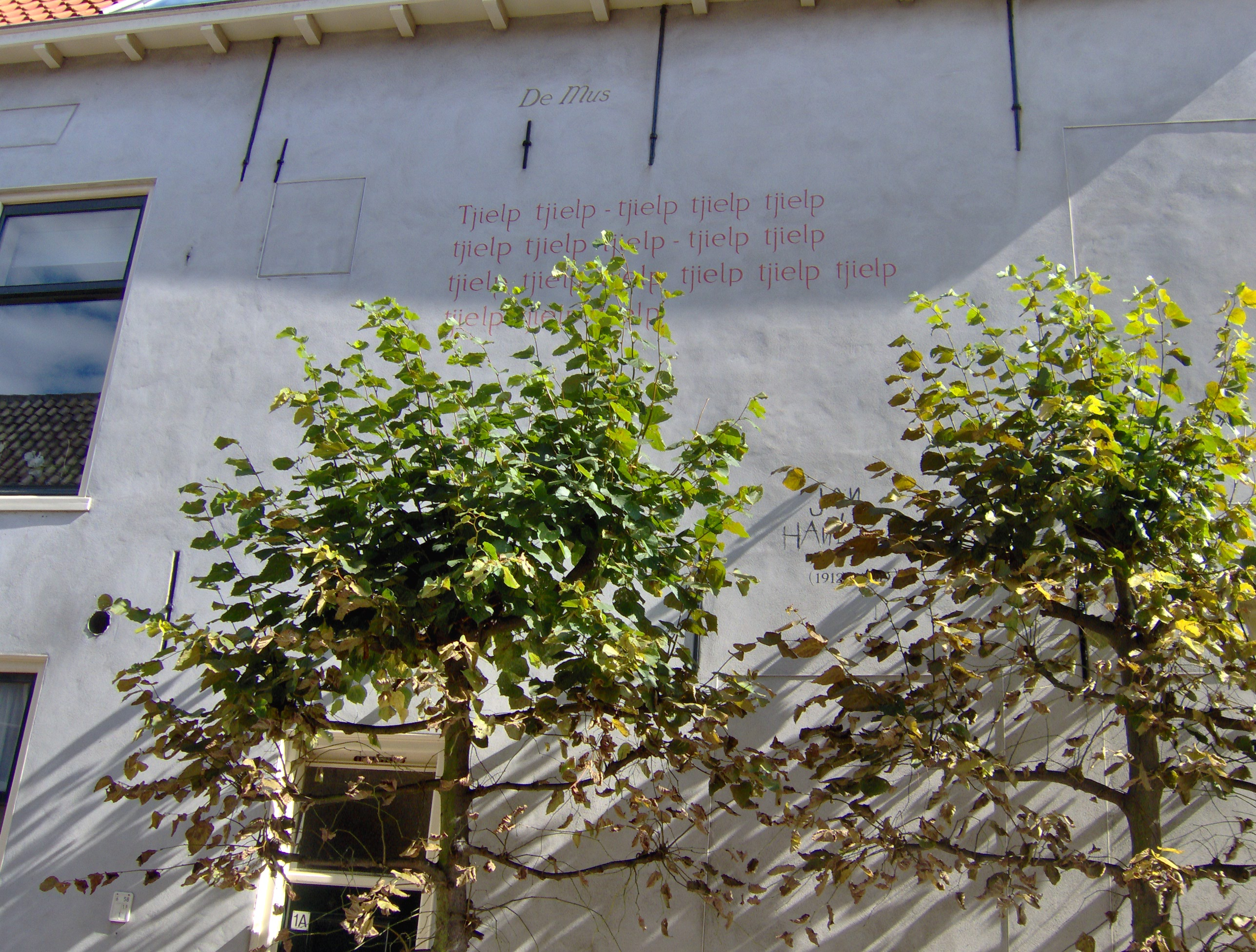 The poem De mus (The sparrow) of the Dutch poet Jan Hanlo on the side wall of the building at Nieuwe Rijn 107, Leiden, The Netherlands